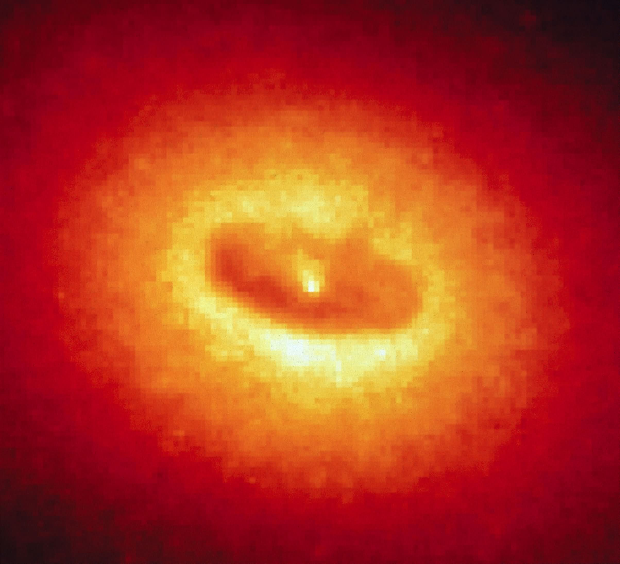 Giant Disk of Cold Gas and Dust Fuels Possible Black Hole at the Core of NGC 4261